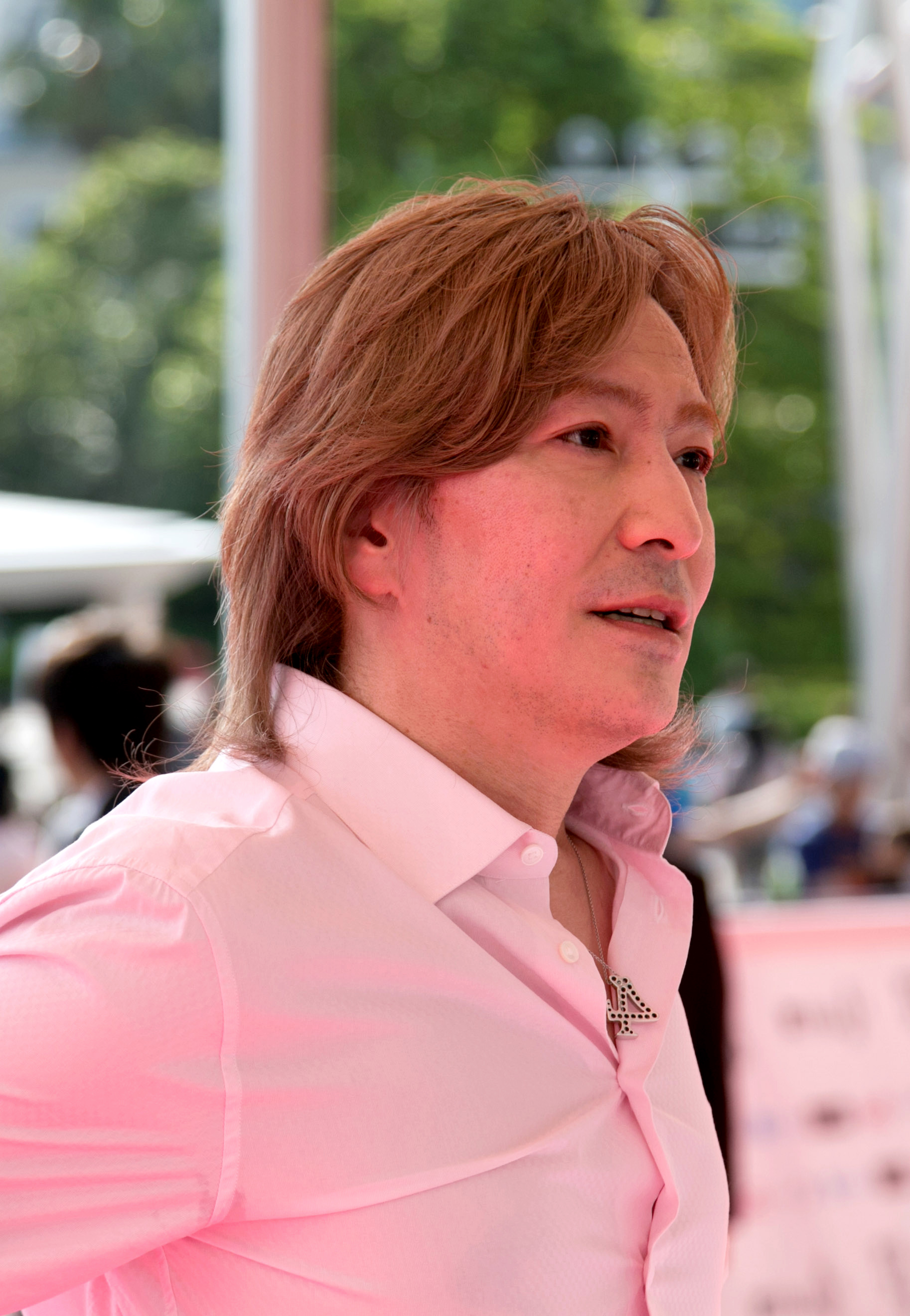 Tetsuya Komuro at the 2014 MTV VMAJ in Japan.